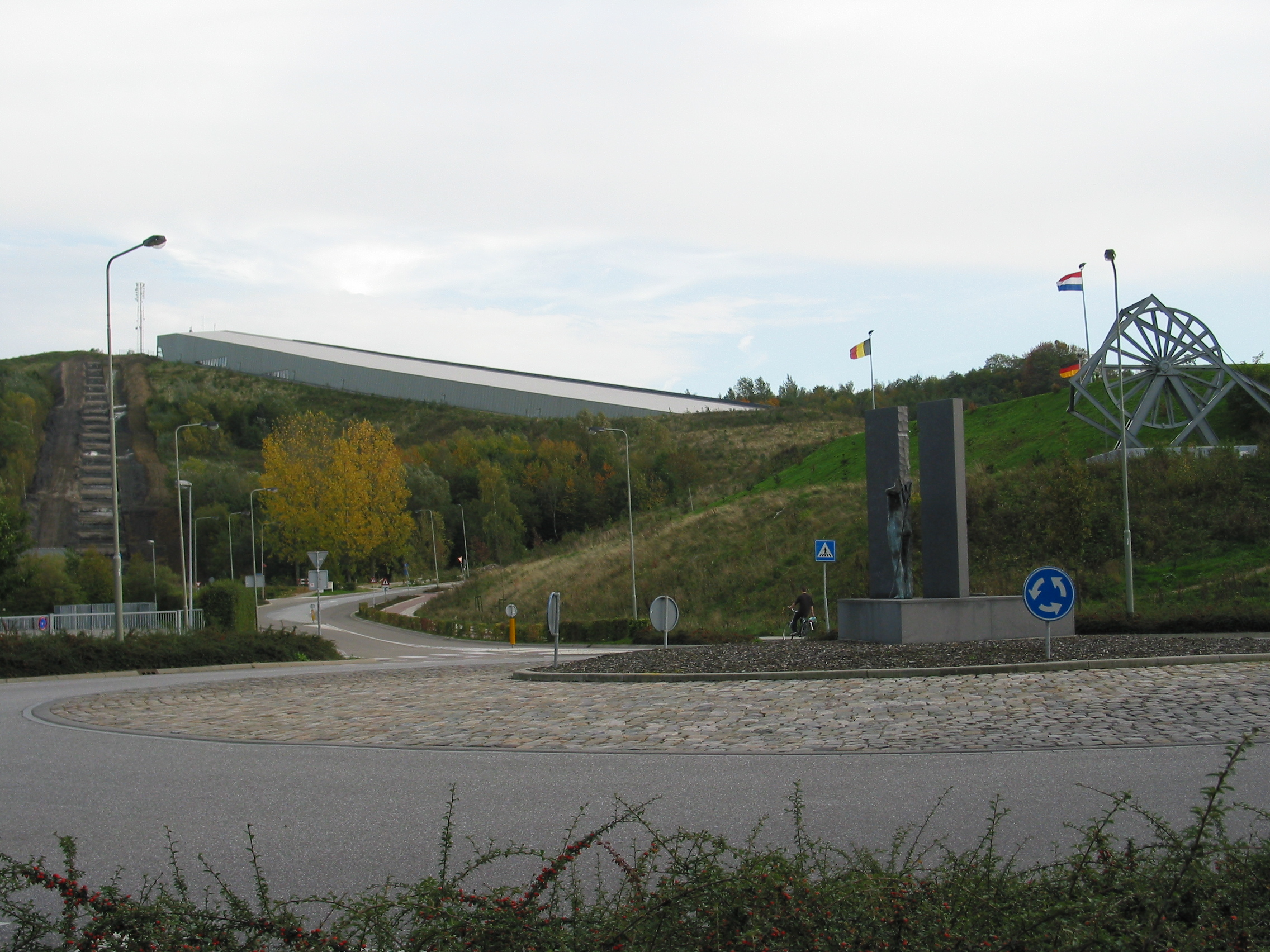 The SnowWorld indoor ski slope in Wilhelminaberg, Netherlands. In the foreground is a new roundabout with art in the centre. To the right is a mining wheel as a monument to the past. An earlier outdoor ski slope was also built on the mountain. This is the longest staircase in the Netherlands.